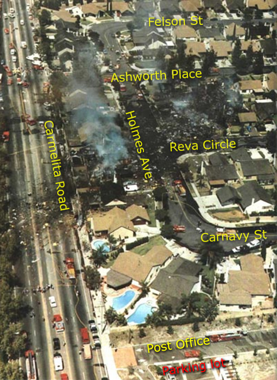 Annotated Crash Site